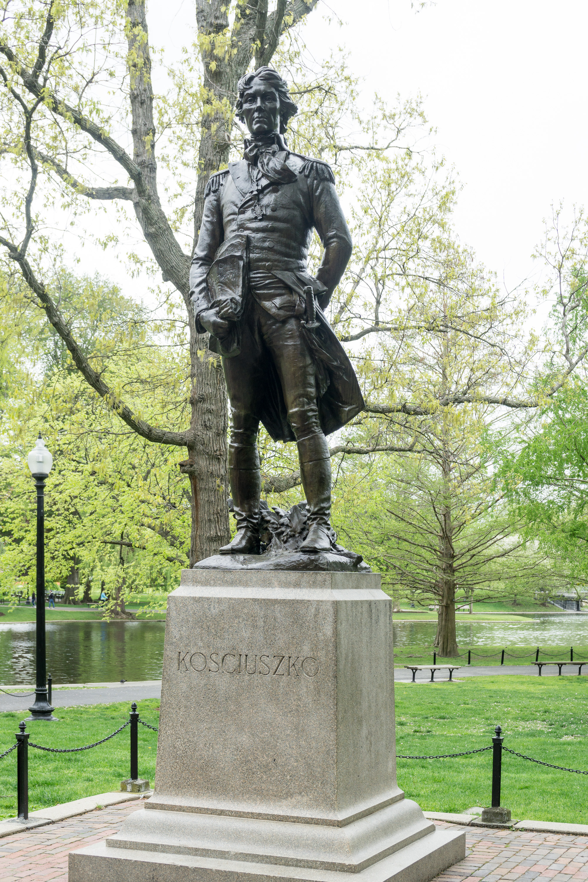 Thaddeus Kosciuszko sculpture in Boston Public Garden, by Theo Alice Ruggles Kitson. 1927.